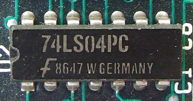 Fairchild Semiconductor 74LS04PC IC. It is a 7404-series hex inverter.